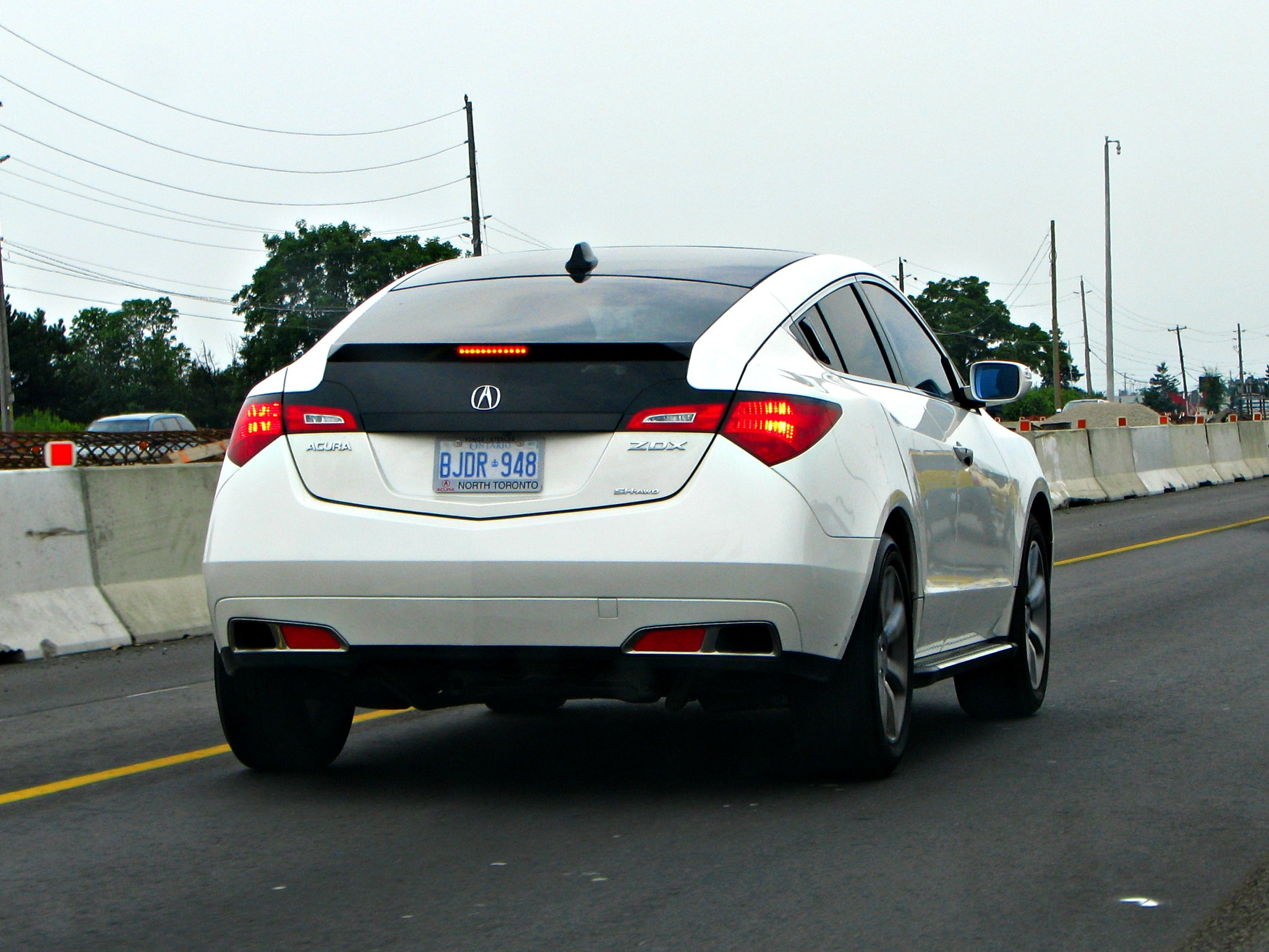 First time seeing one...